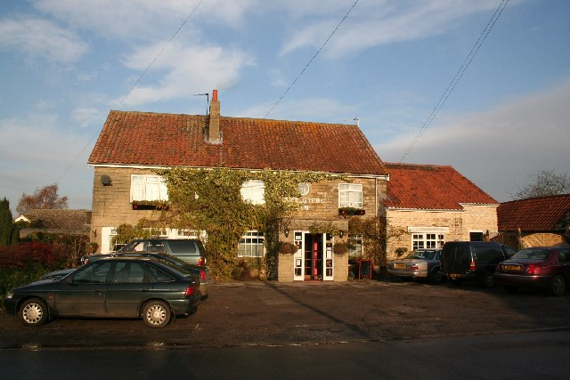 The Dambusters Inn, Scampton. With Dambusters memorabilia - 617 Squadron, commanded by Wing Commander Guy Gibson flew the famous Dambusters mission from nearby RAF Scampton in 1943